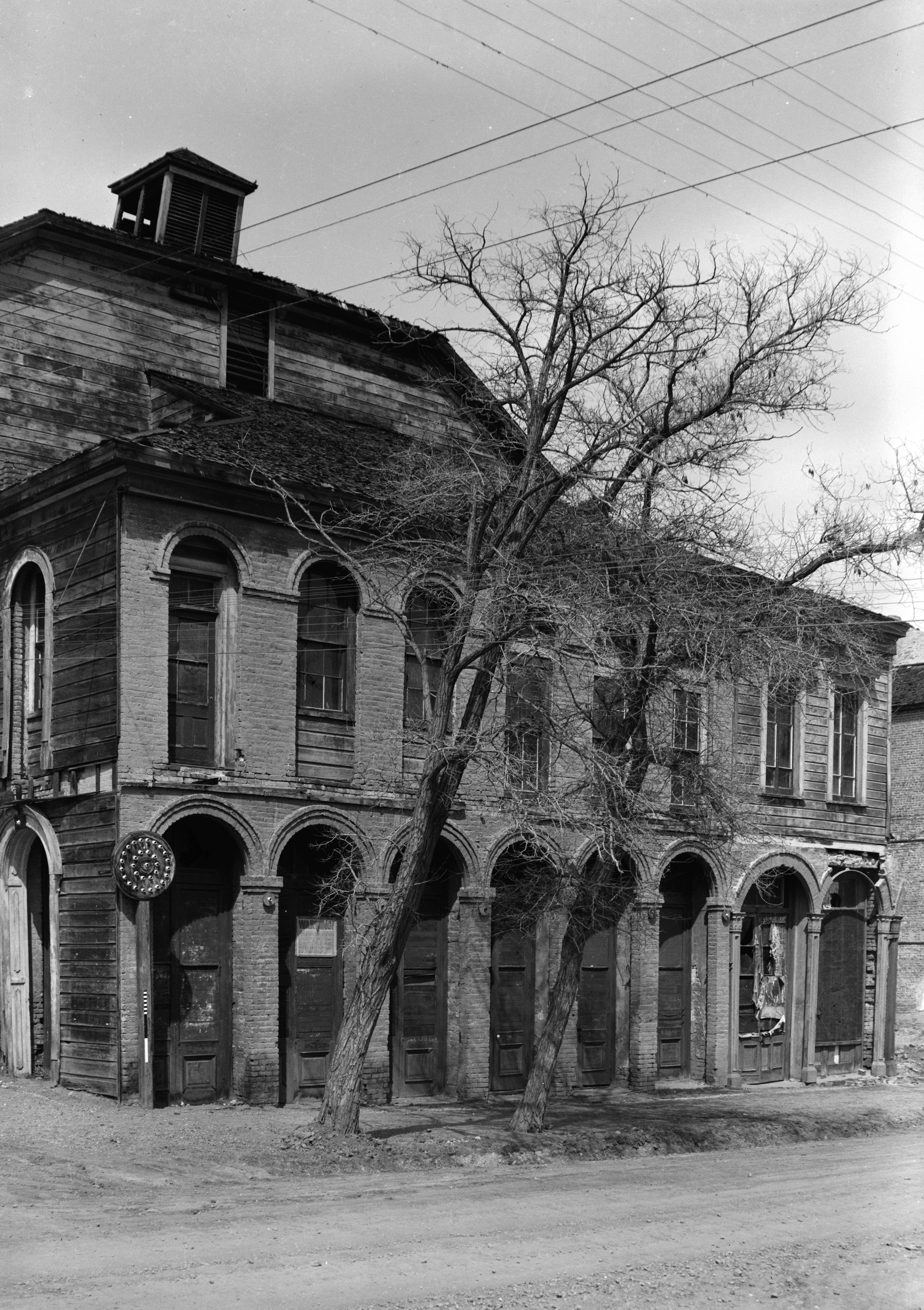 Front of Piper's Opera House, located at 1, 3, and 5 N. B Street in Virginia City, Nevada, United States. Built in 1863, it is listed on the National Register of Historic Places and is part of the Virginia City Historic District, a National Historic Landmark.